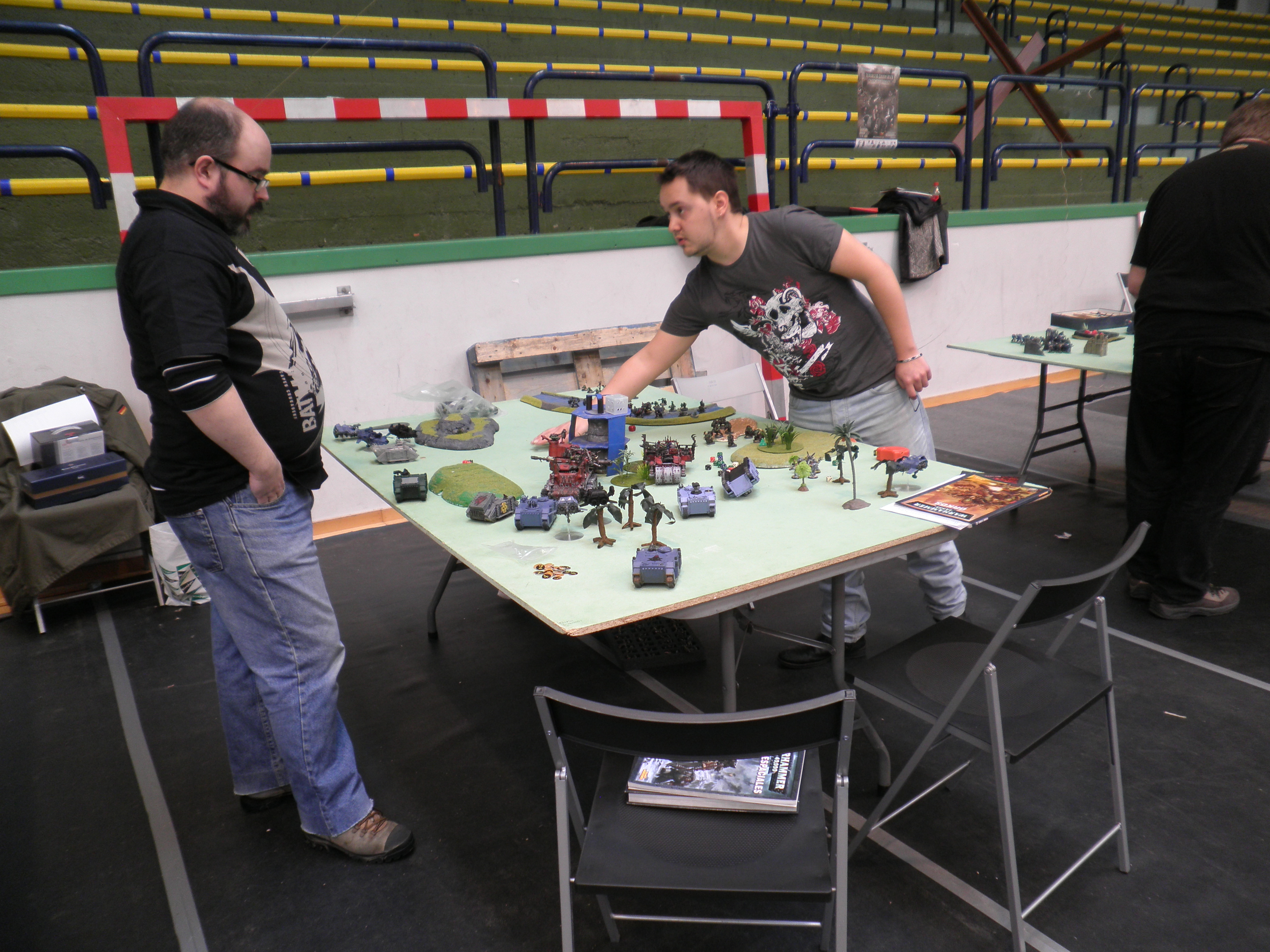 "Topaketa errunikoak" game convention.